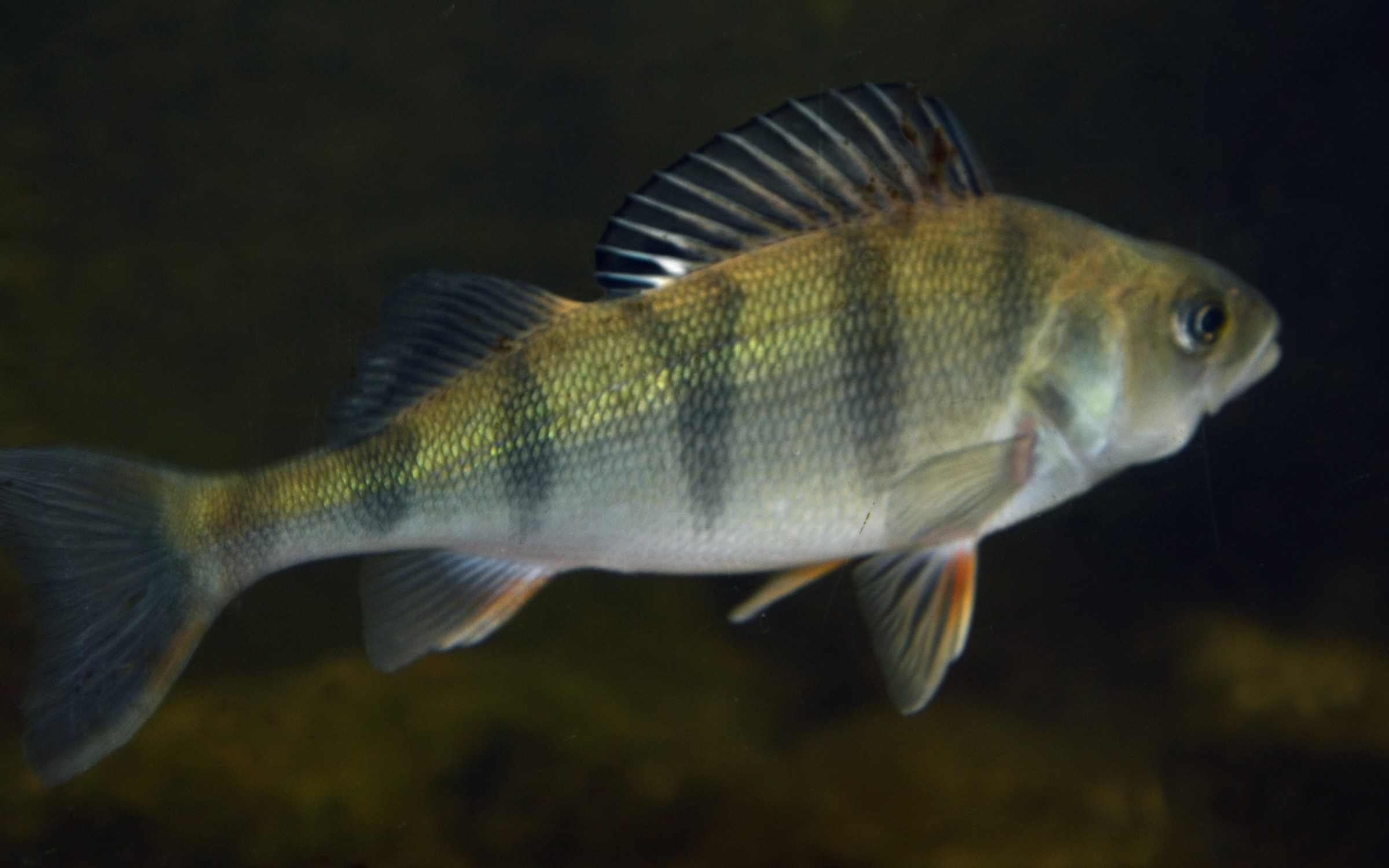 Perch